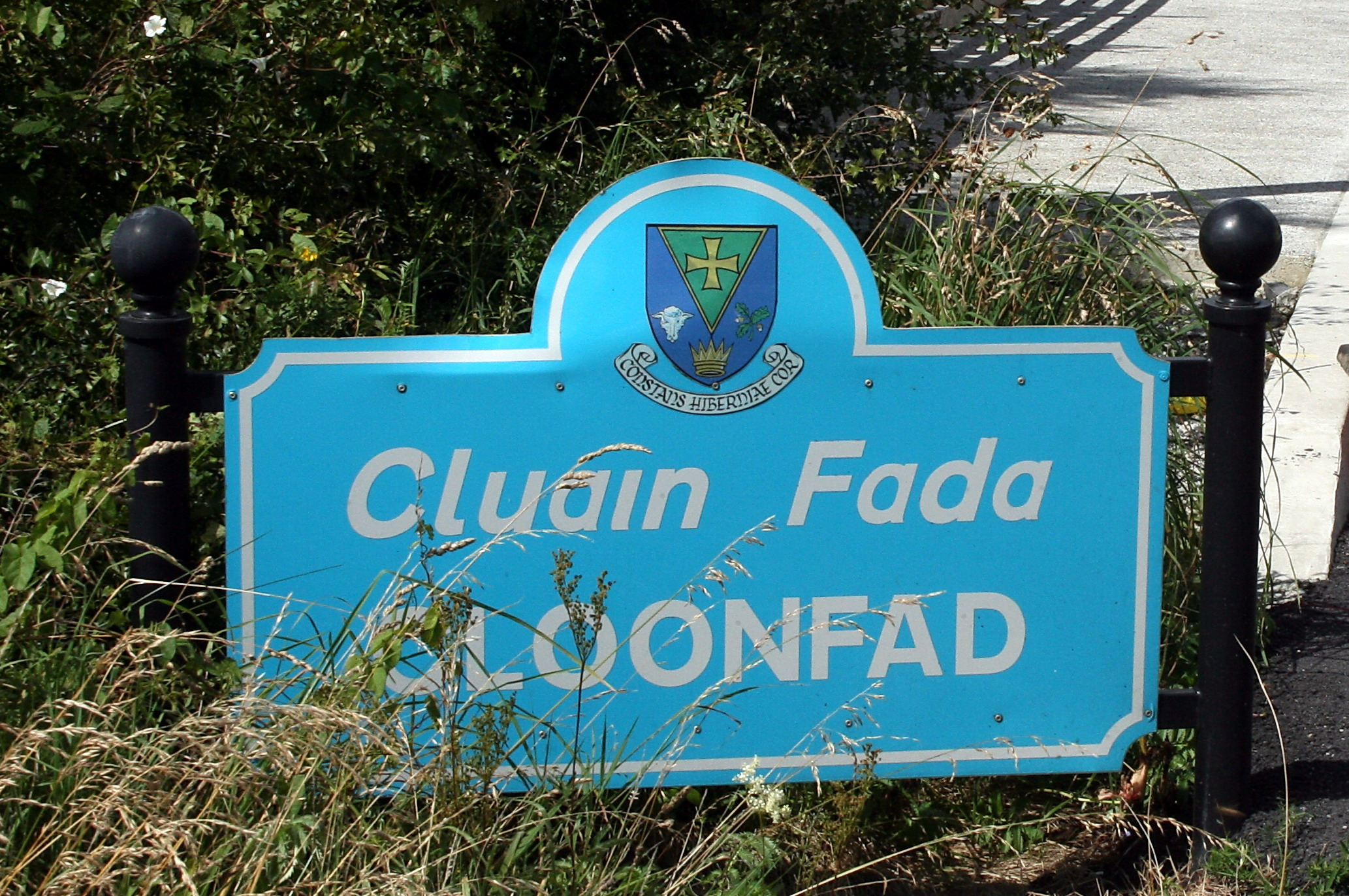 Cloonfad sign